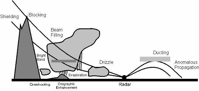 Some of the most commons returns to a weather radar that constitute false echos or partial data.